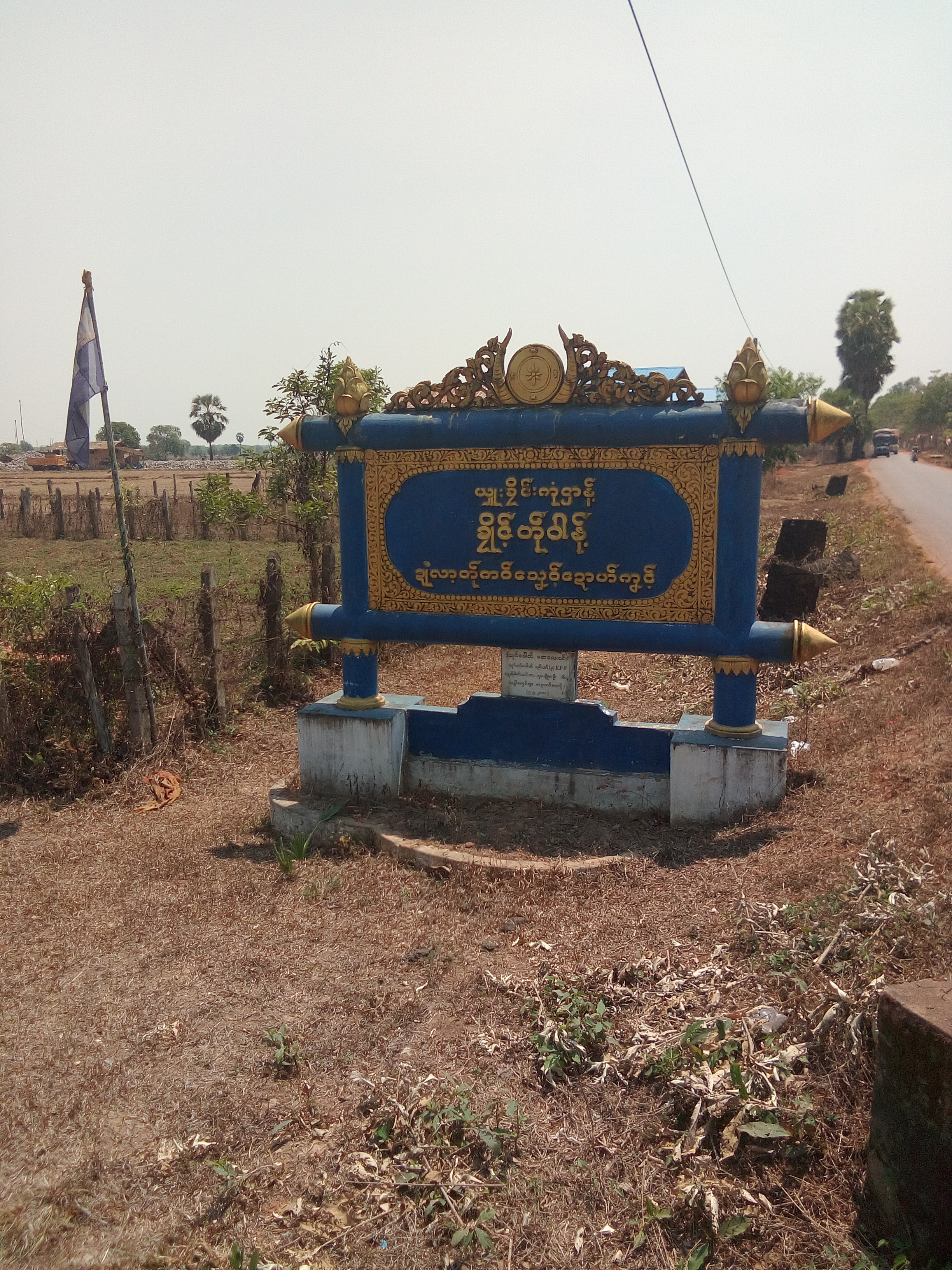 Kha Lel Signboard